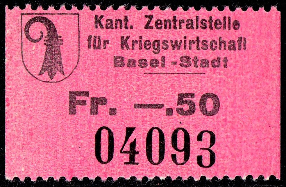 Switzerland Basel 1911 war tax 0.50Fr - 4. Perforated horizontally 11.75.